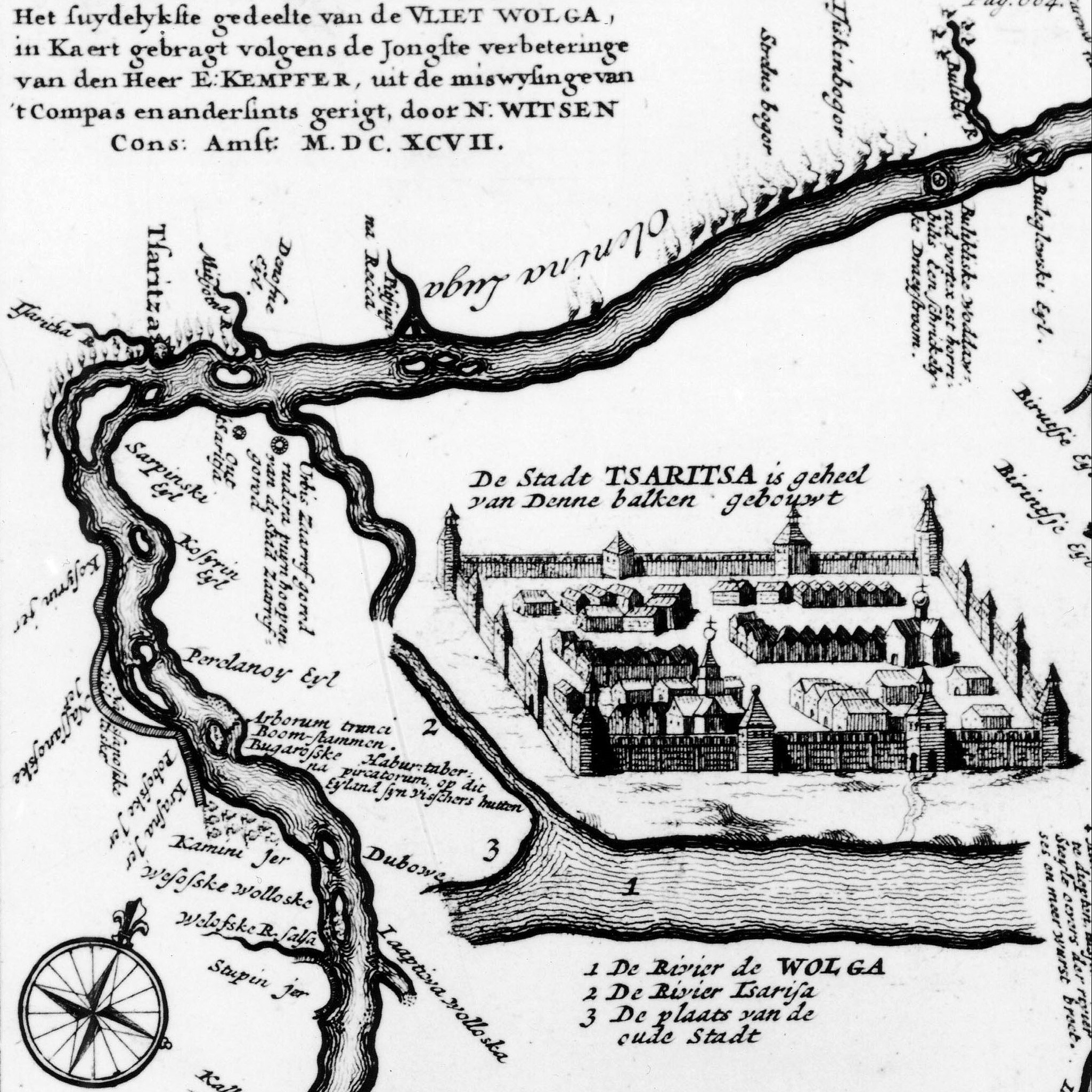 Plan of Tsaritsyn in 1697 (present day Volgograd).